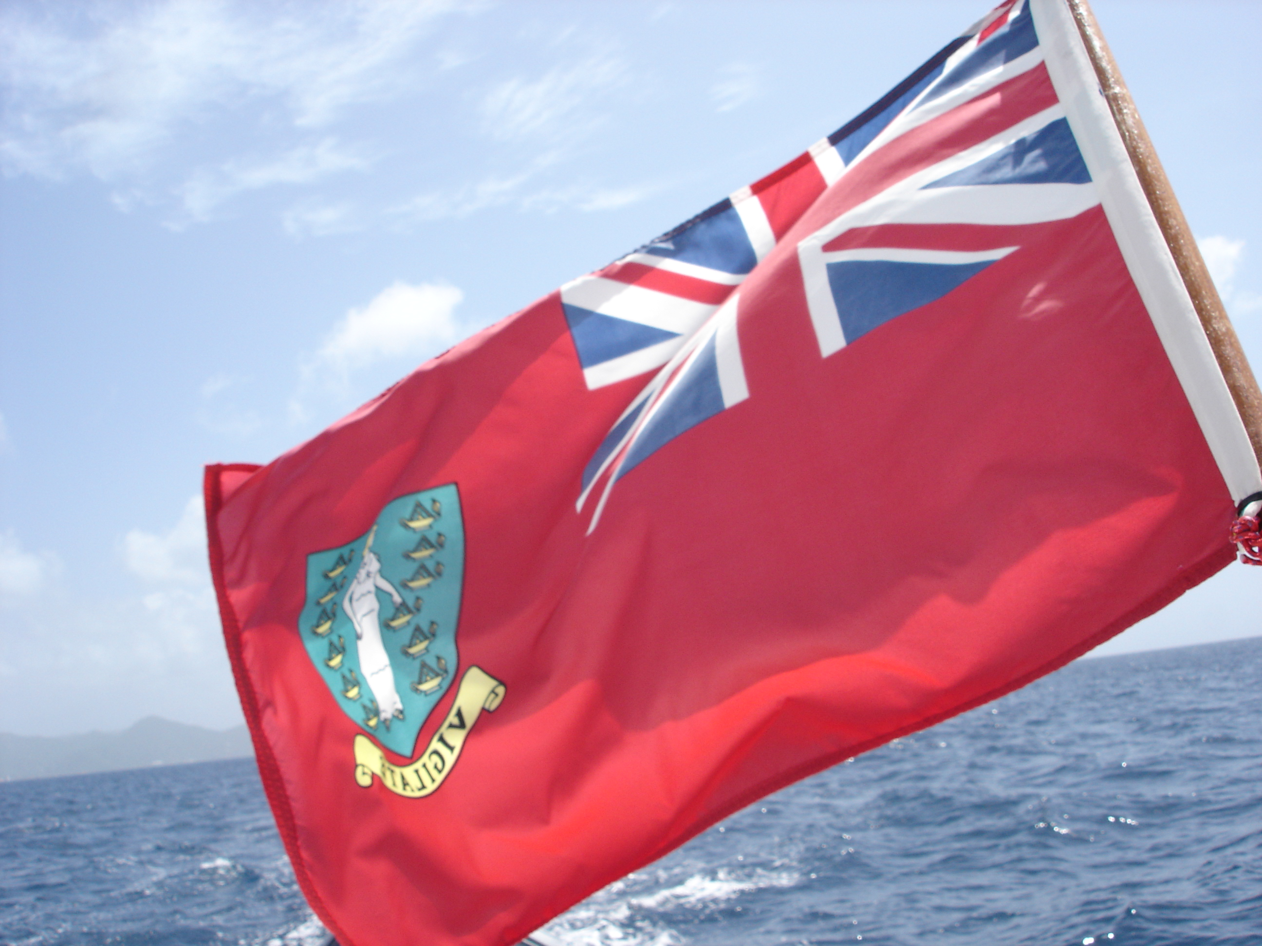 The BVI sailing flag